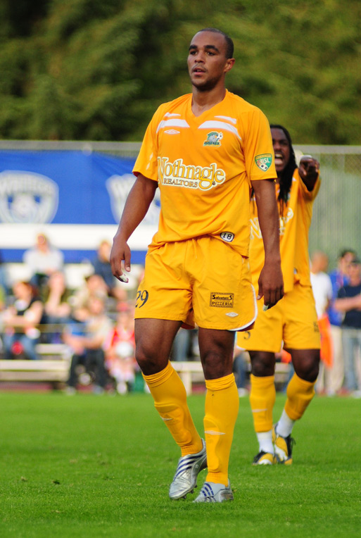 Photo of soccer player, Taiwo Atieno.